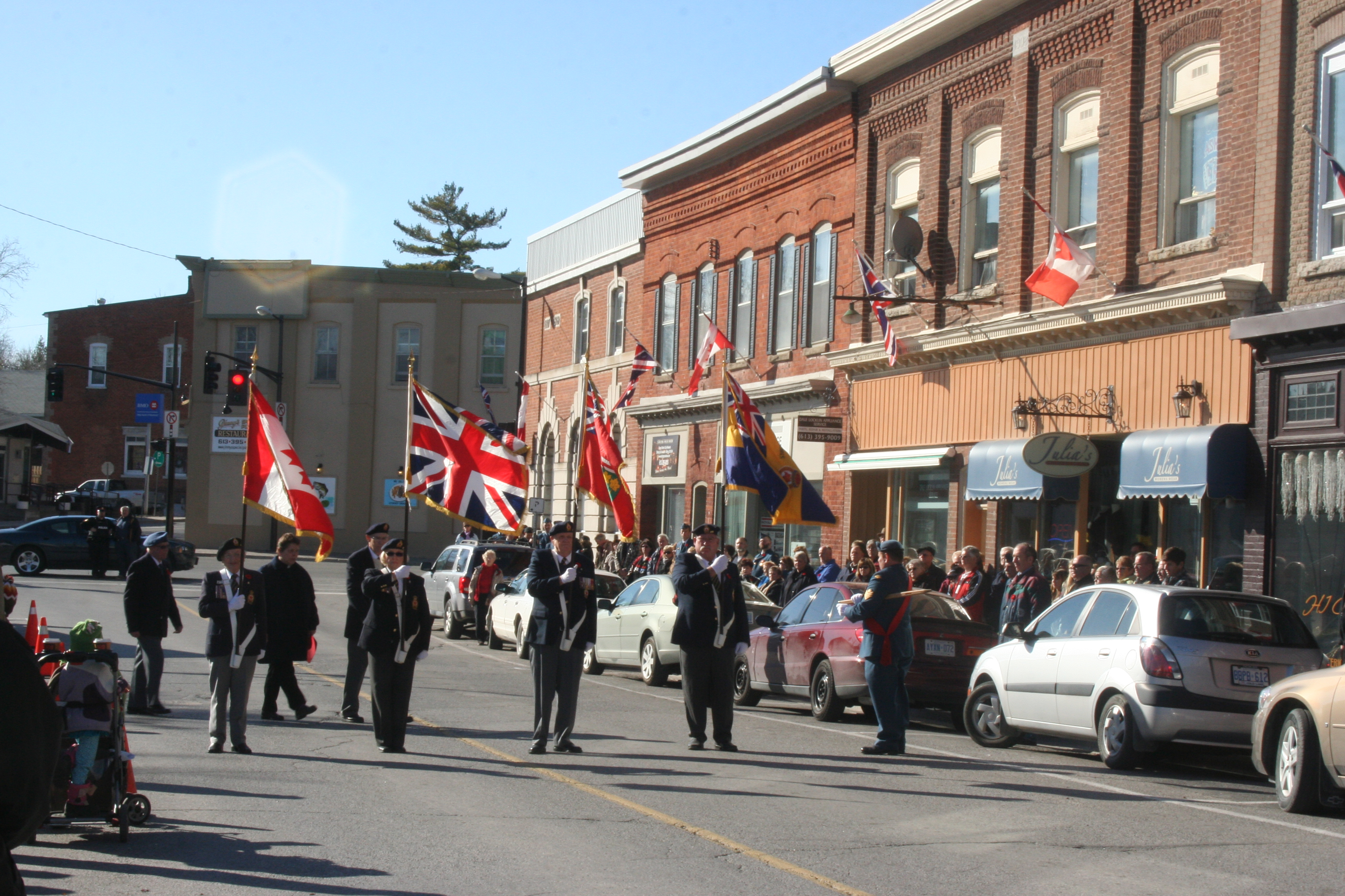 Colour party assembles for the parade after the service